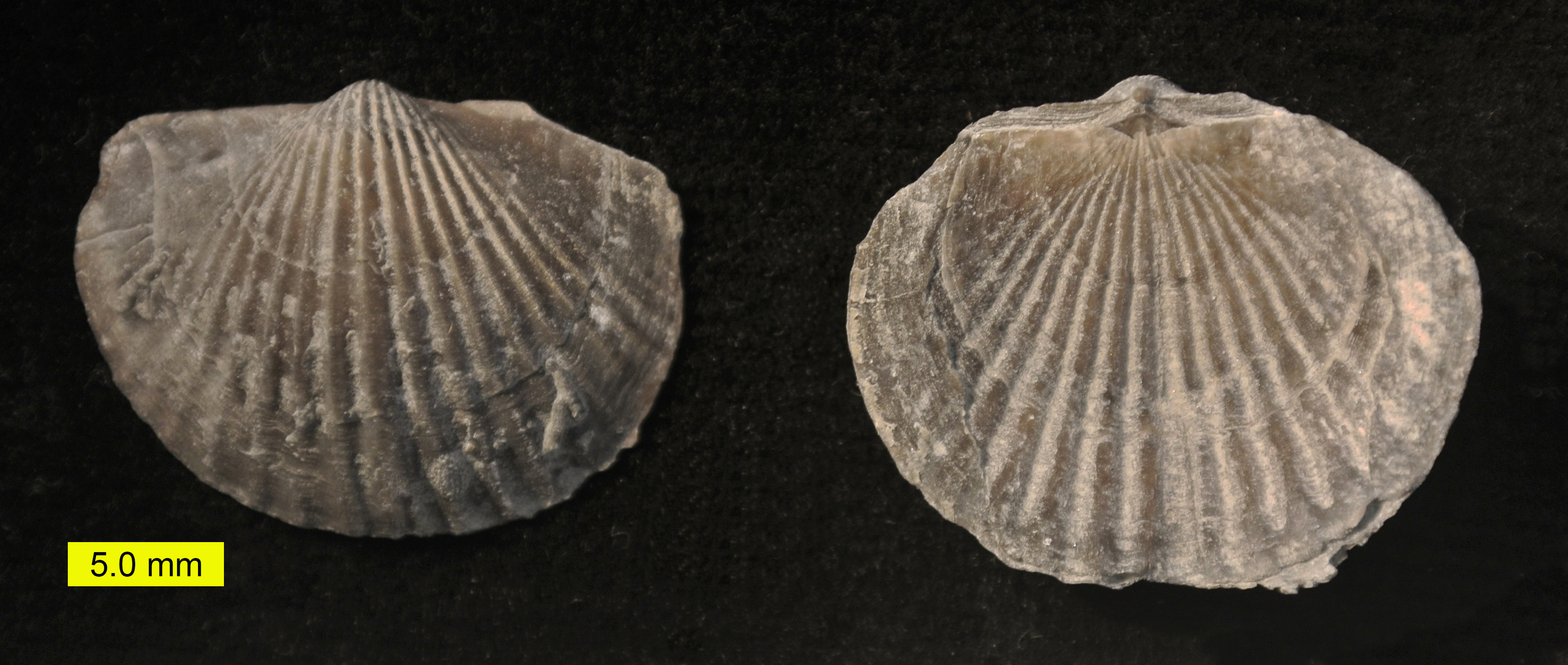 Tropidoleptus carinatus, an orthid brachiopod from the Kashong Shale (Middle Devonian) of Livingston County, New York, USA. Collected by Brian Bade.